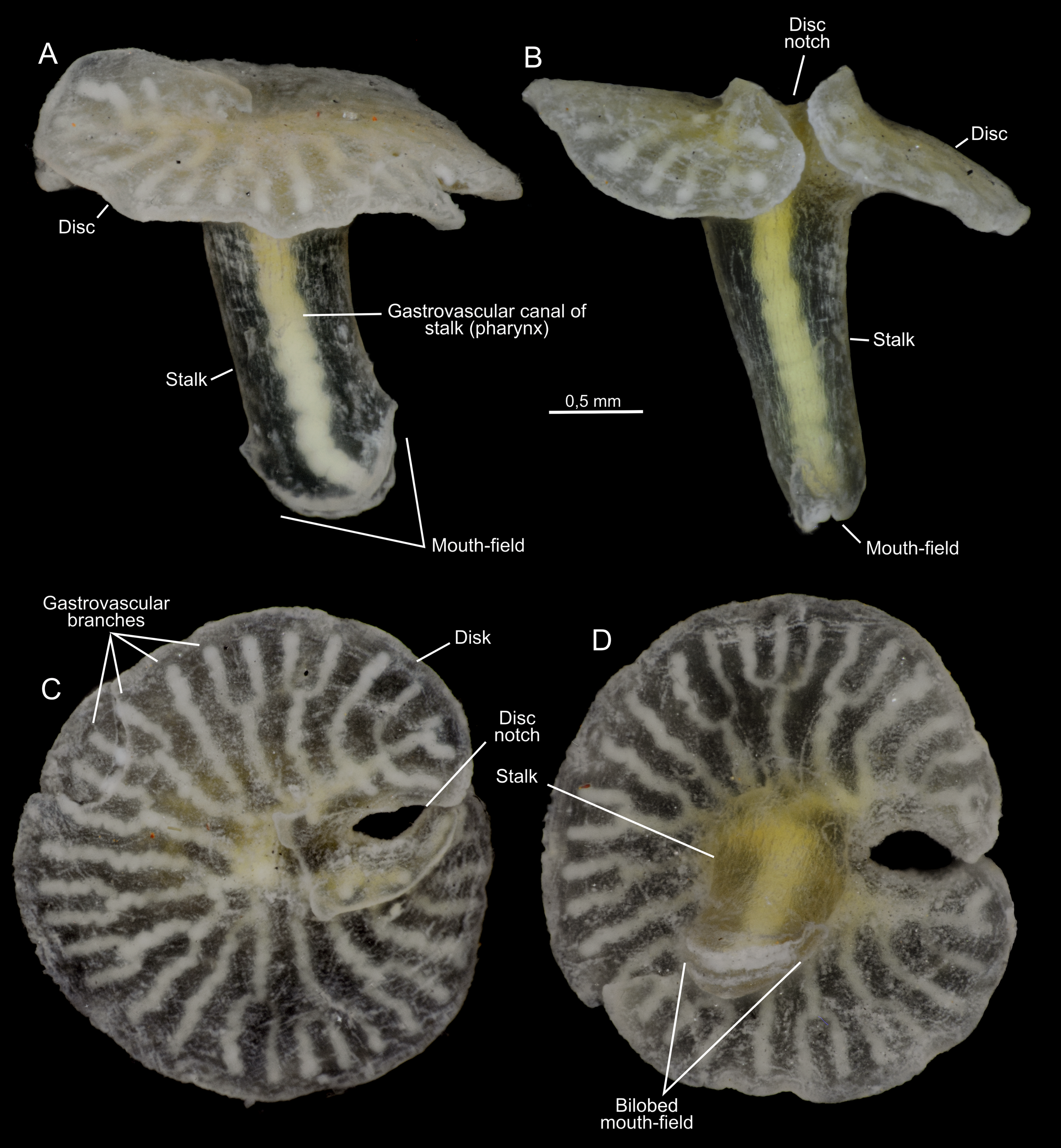 The holotype of Dendrogramma enigmatica, a species discovered off the south-east coast of Australia in 1986. In 2014, Just, Møbjerg and Olesen published a paper that said the species could not be classified in any existing phylum.